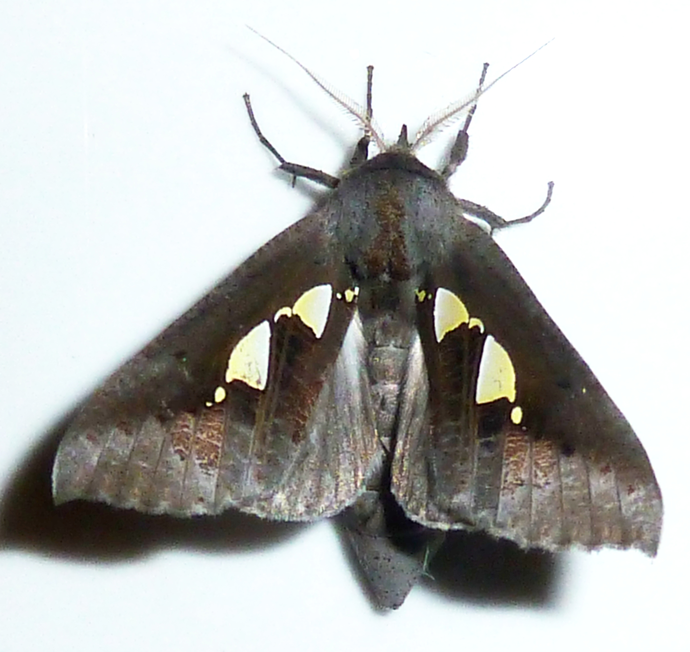 Antiophlebia bracteata Felder, 1874 (Noctuidae: Calpinae or Ophiderinae) in Pretoria, South Africa